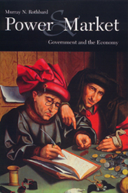 The front book cover art for the book Power and Market by the author(s) Murray Rothbard. The book cover art copyright is believed to belong to the publisher or the cover artist.